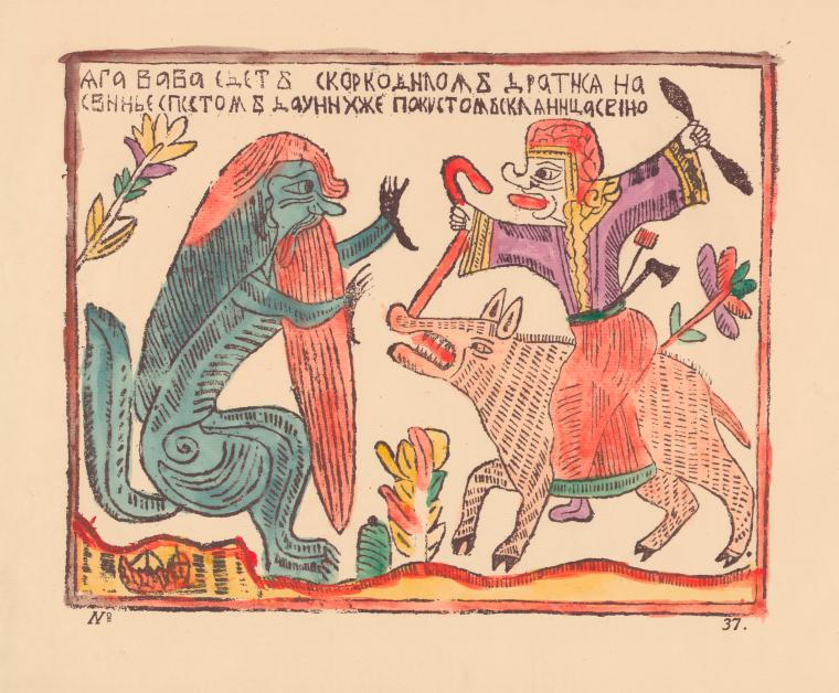 Baba Yaga riding a pig and fighting the infernal Crocodile. Russian lubok (a possible satire of Peter the Great and his wife).